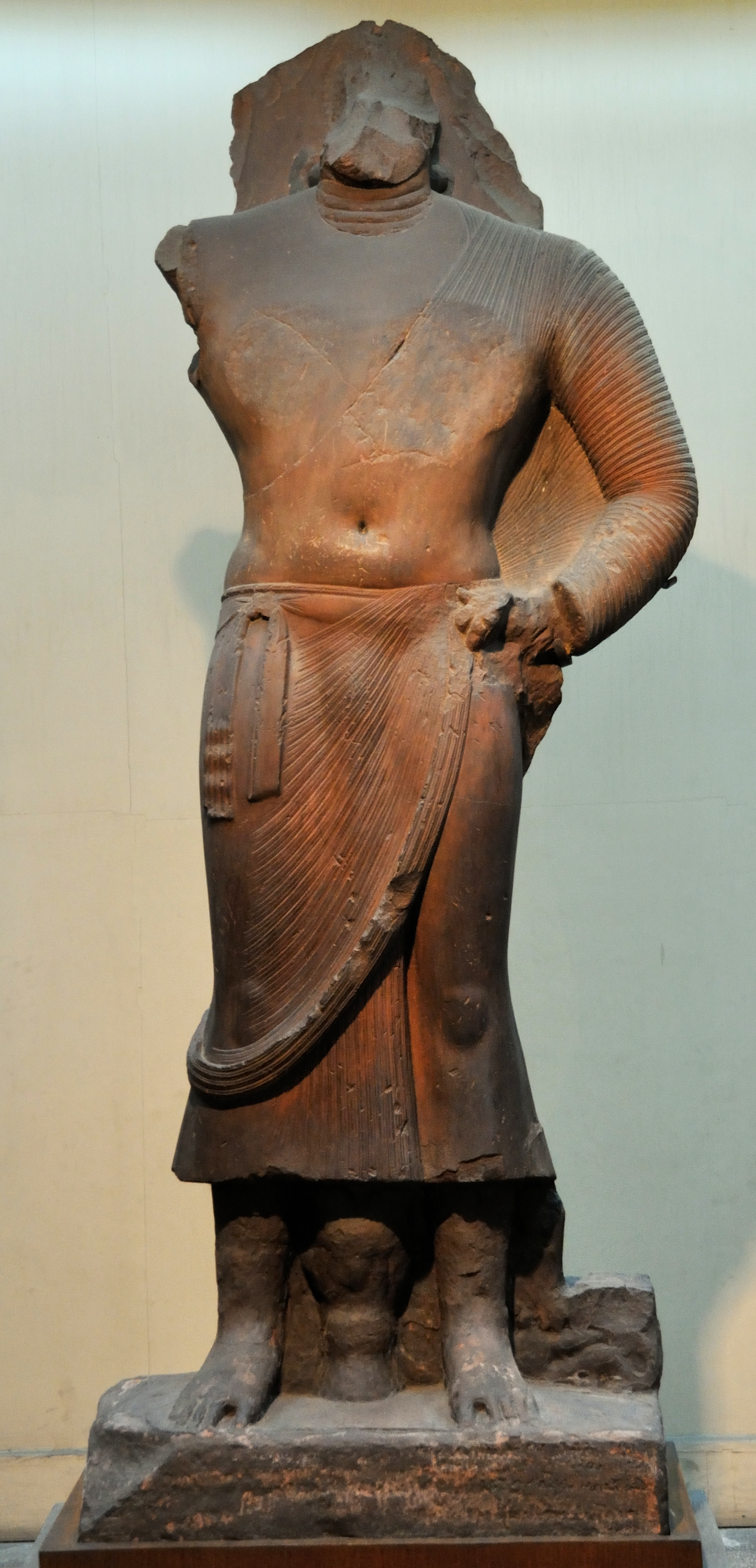 Sahat-Mahet Bodhisattva. The inscriptionSet-Mahet Bodhisattva Kanishka or Huvishka period. The sculpture was set up in Sravasti.Epigraphia Indica VIII. Indian Museum, Calcutta The inscription reads: "In the ..... th year of the Maharaja, the Devaputra Kanishka (or Huvishka?) in the ....th month of ...... on the 10th day, on the date specified above, a Bodhisattva, an umbrella and a stick, the gift of the monk Bala, who knows the Tripitaka, a companion of the monk Pushya(vriddhi), (have been set up) at Sravasti, at the place where the Lord (ie Buddha) used to walk, in the Kosambakuti, at the property of the teachers of the school of Sarvastivadins." Epigraphia Indica VIII p.181 Another viewPhotographed in the archeology gallery of Indian Museum, Kolkata.